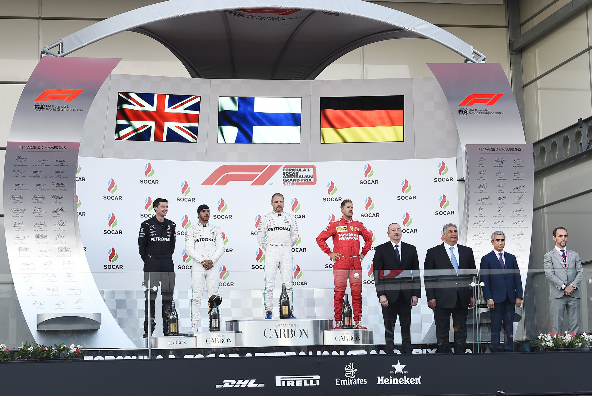 Ilham Aliyev watched the opening ceremony of the 2019 Formula-1 Azerbaijan Grand Prix and final race